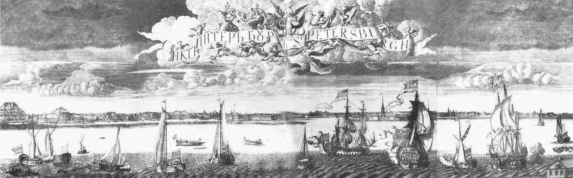 Example of work by Alexey Zubov "Panoramic View of St. Petersburg", dated 1716 - copyright expired